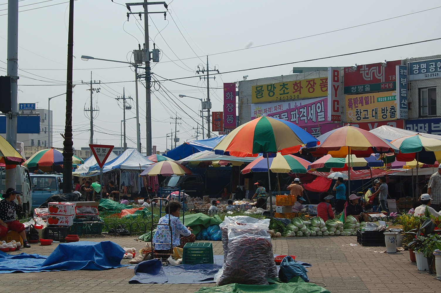 Korea, Suncheon market